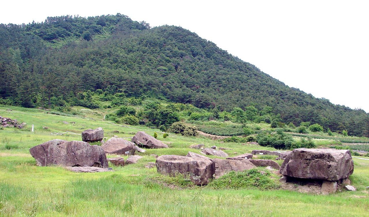 Group of dolmens at the Gochang Jungnim-ri Dolmens that are centered in Maesan village, Gochang County, North Jeolla province